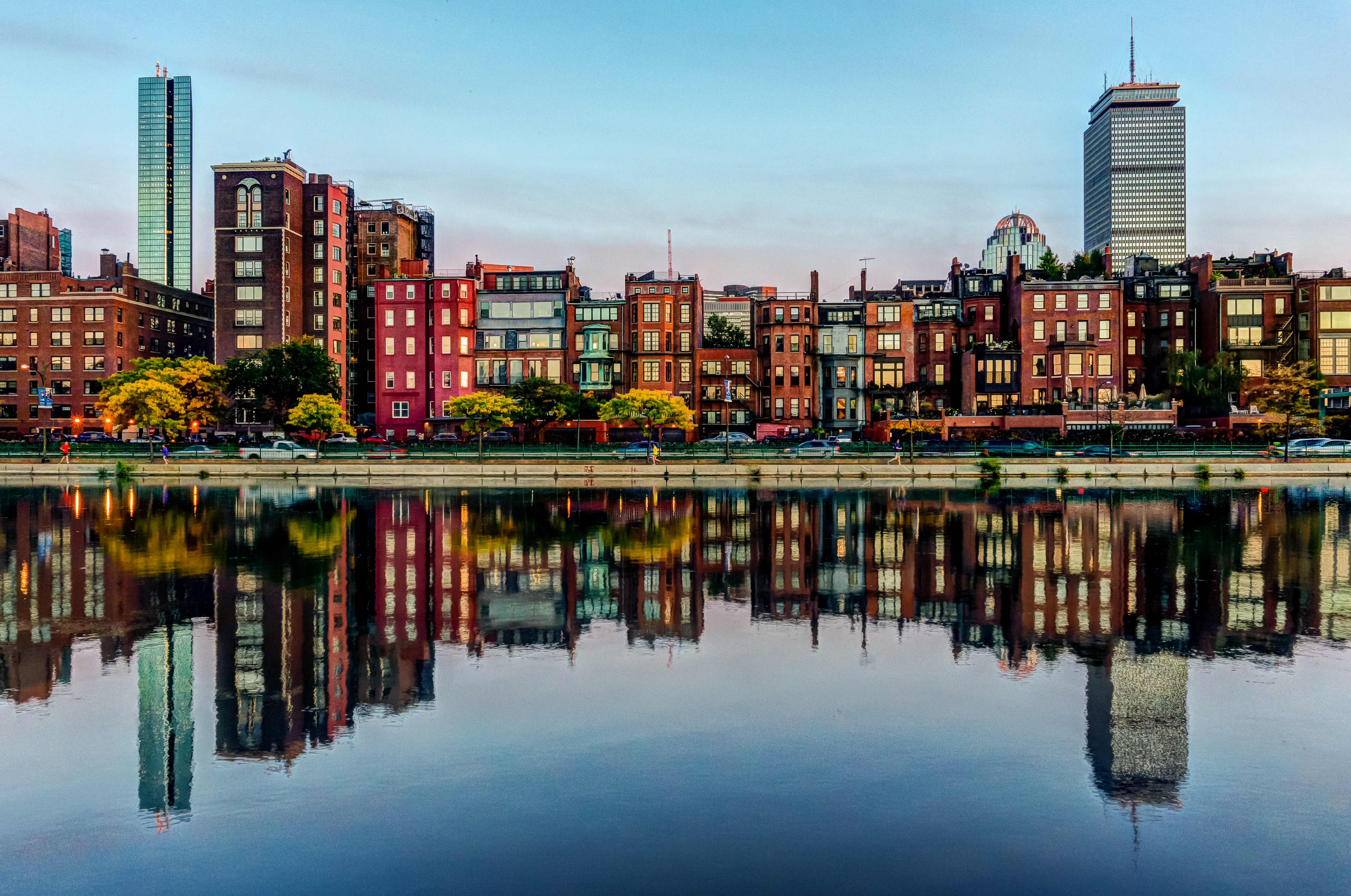 Brownstones of Boston's Back bay neighborhood reflected in the Charles River